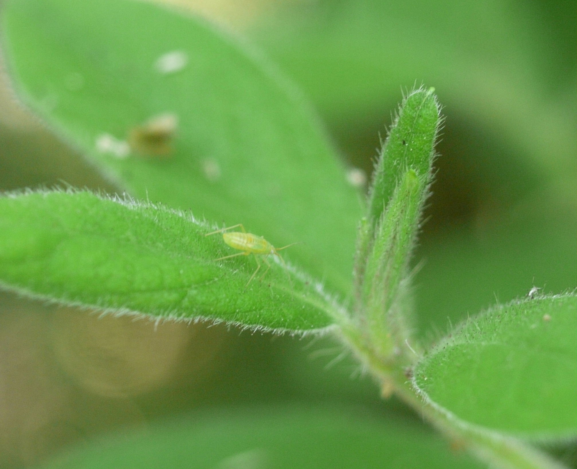 Orthotylus (Kiiortotylus) gotohi. Tanabe, Wakayama Prefecture, Japan.